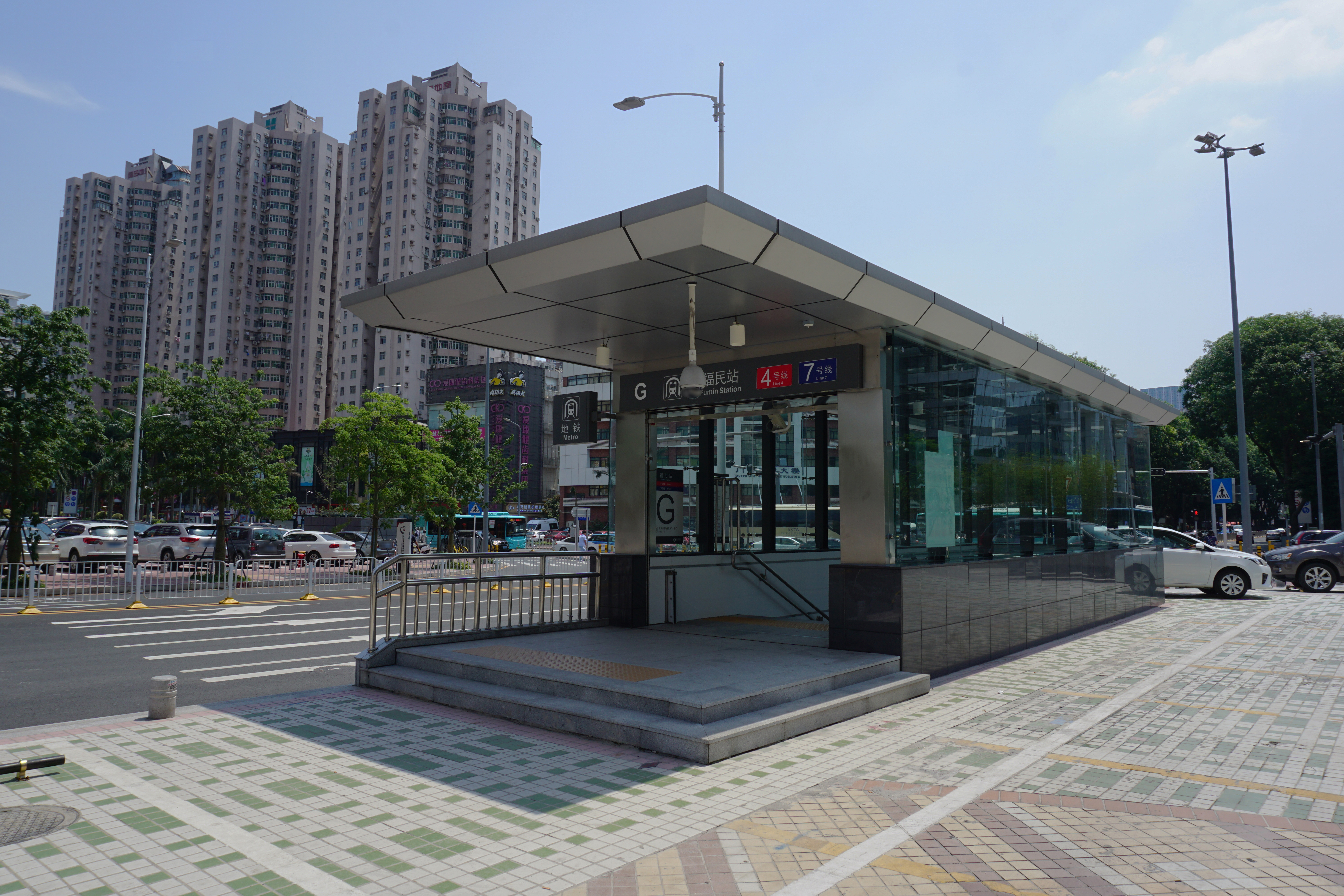 Fumin Station in Huanggang Port, Shenzhen.